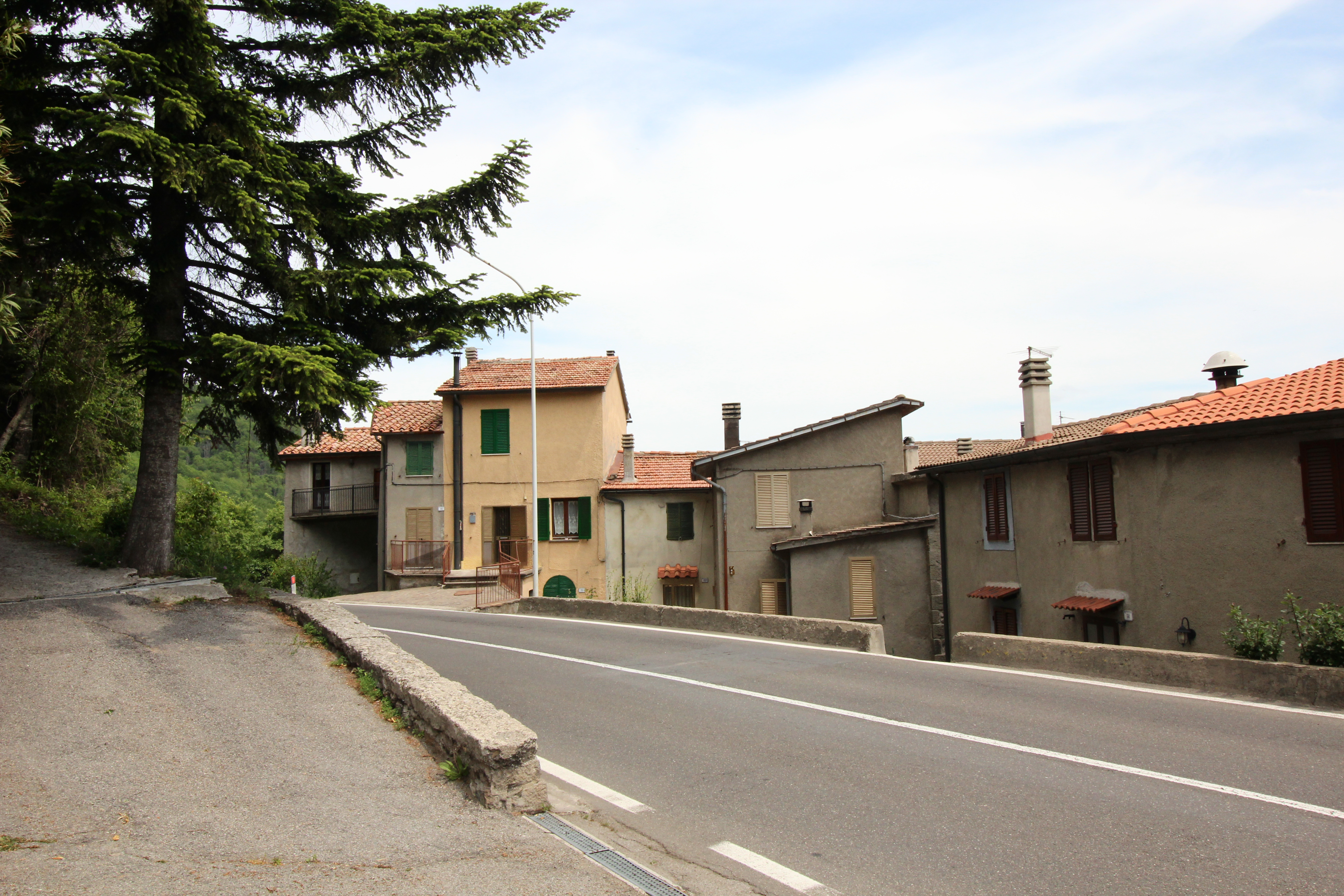 Tre Case, village in the territory of Piancastagnaio, Province of Siena, Tuscany, Italy